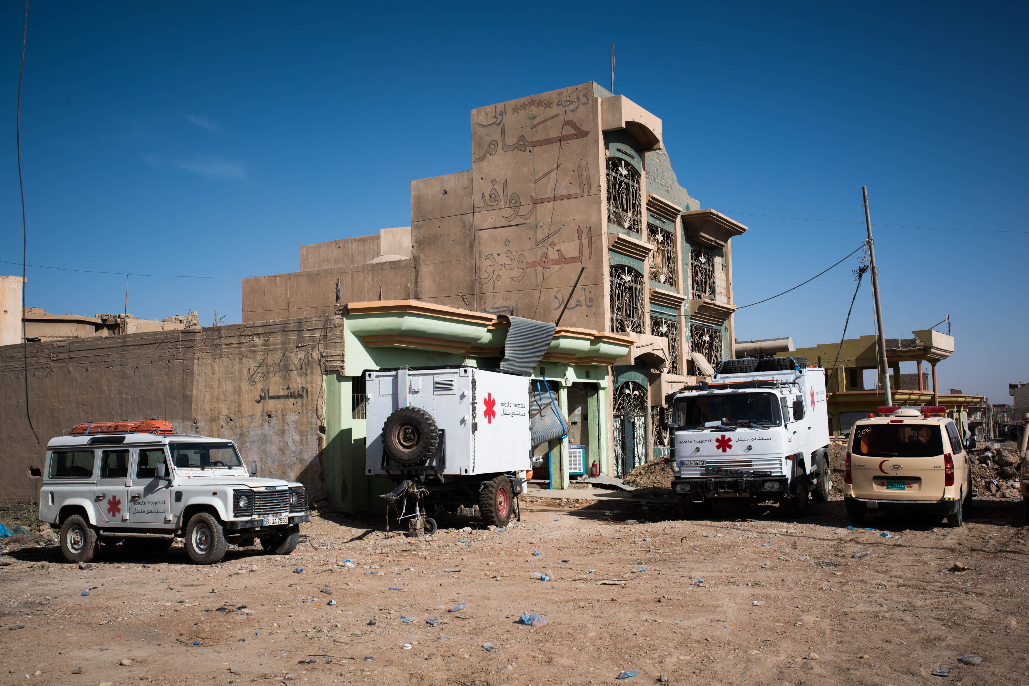 CADUS - Redefine Global Solidarity (NGO) Trauma Stabilisation Module in Mosul/Mossul (Iraq)